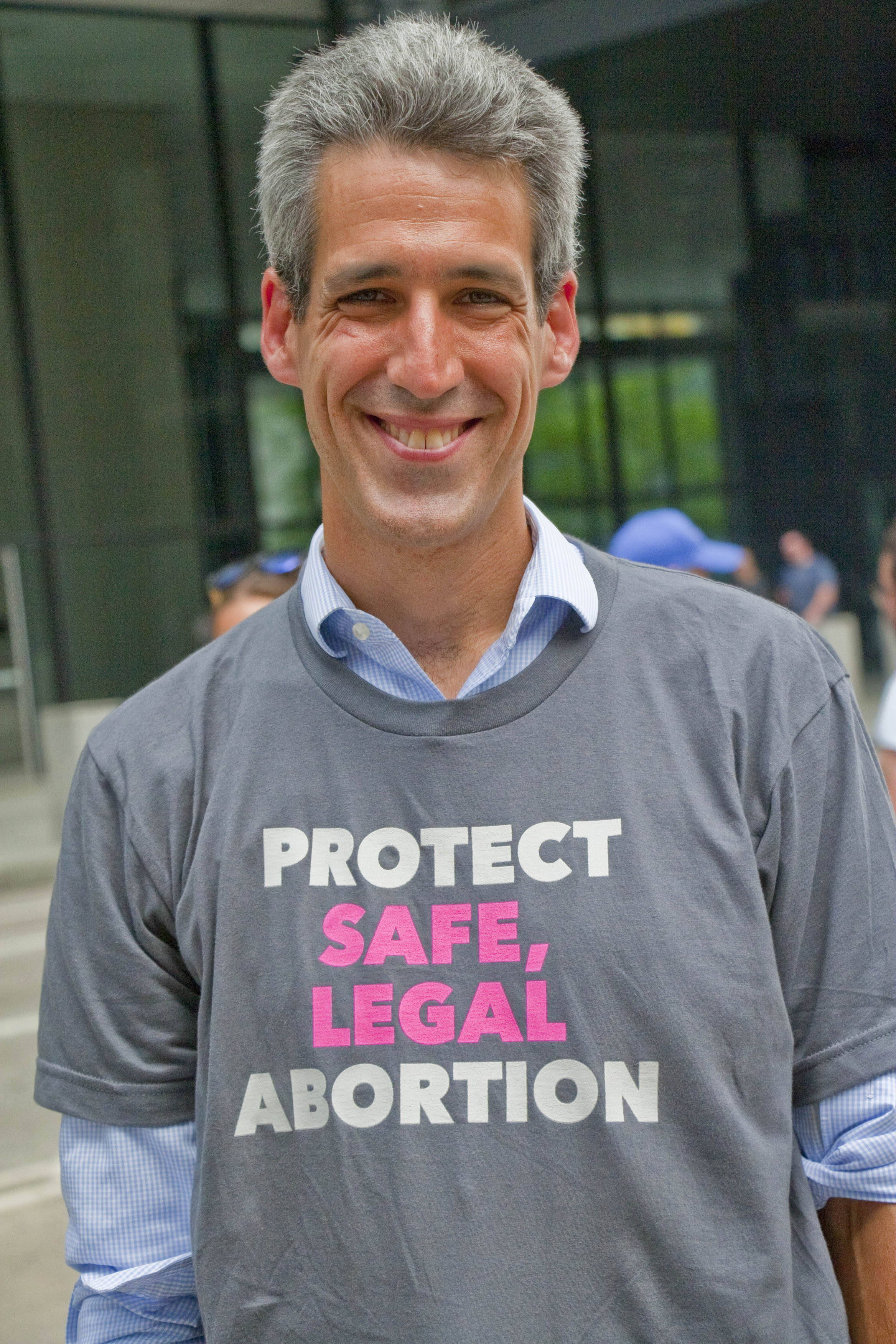 Illinois State Senator Daniel Biss from Evanston Stop Brett Kavanaugh Rally Downtown Chicago Illinois 8-26-18 3491